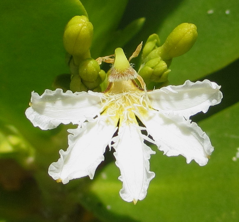 A member of the family Goodeniaceae. The plant is a coastal pioneer that fixes sand of beaches.